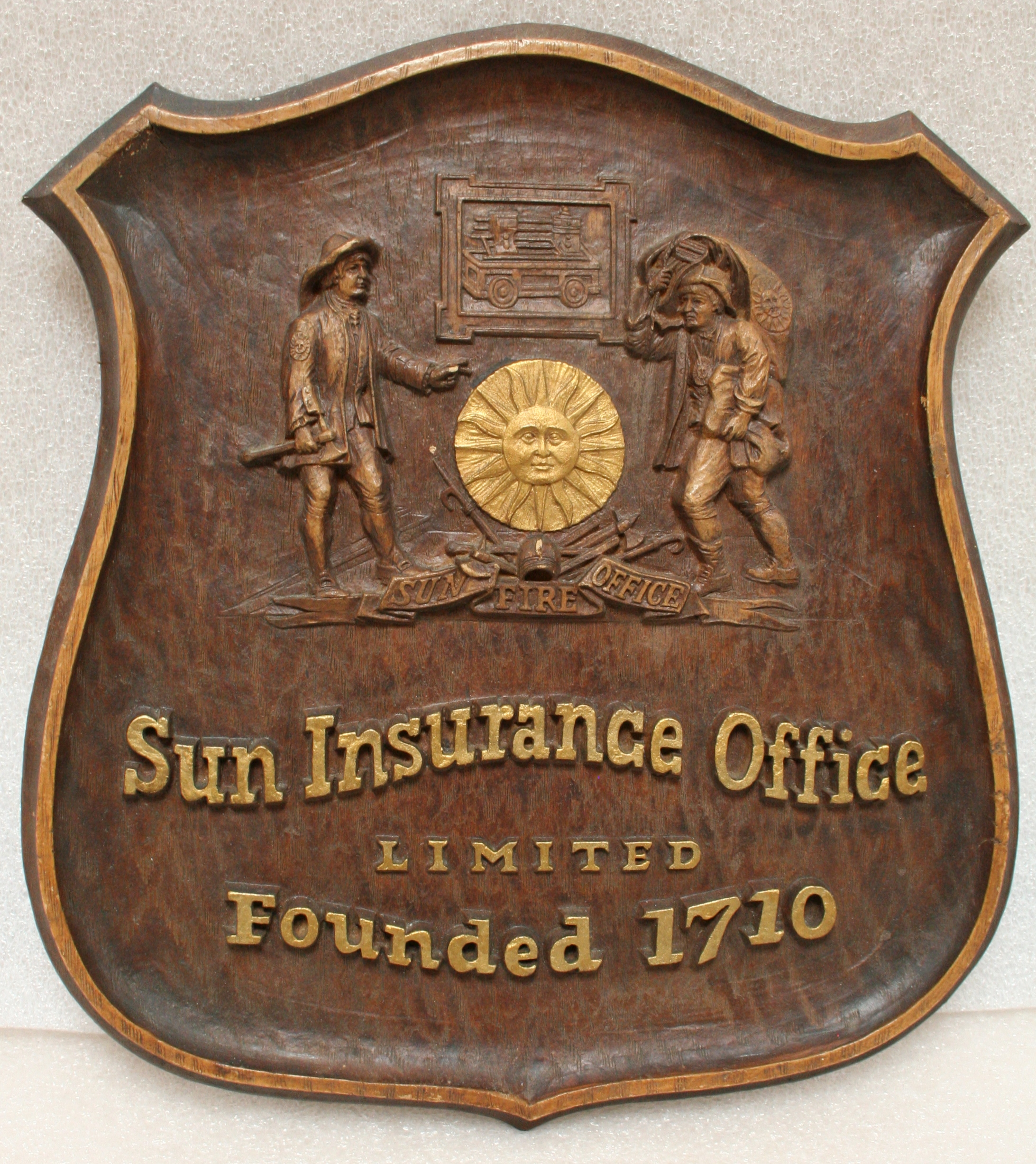 Shield shaped burwood trade sign for Sun Insurance Office, Ltd Title: Sun Insurance Office, Ltd Trade Sign